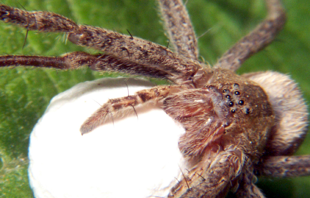 jpeg image, female nursery web spider, Pisaurina mira with egg sac